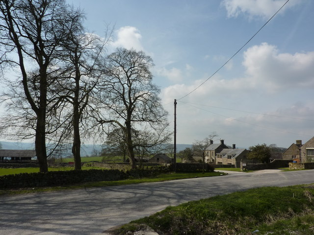 Farley, a hamlet A few houses and a couple of farms.